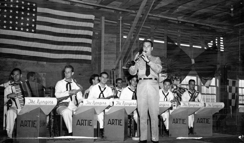 from the John Murphy Collection